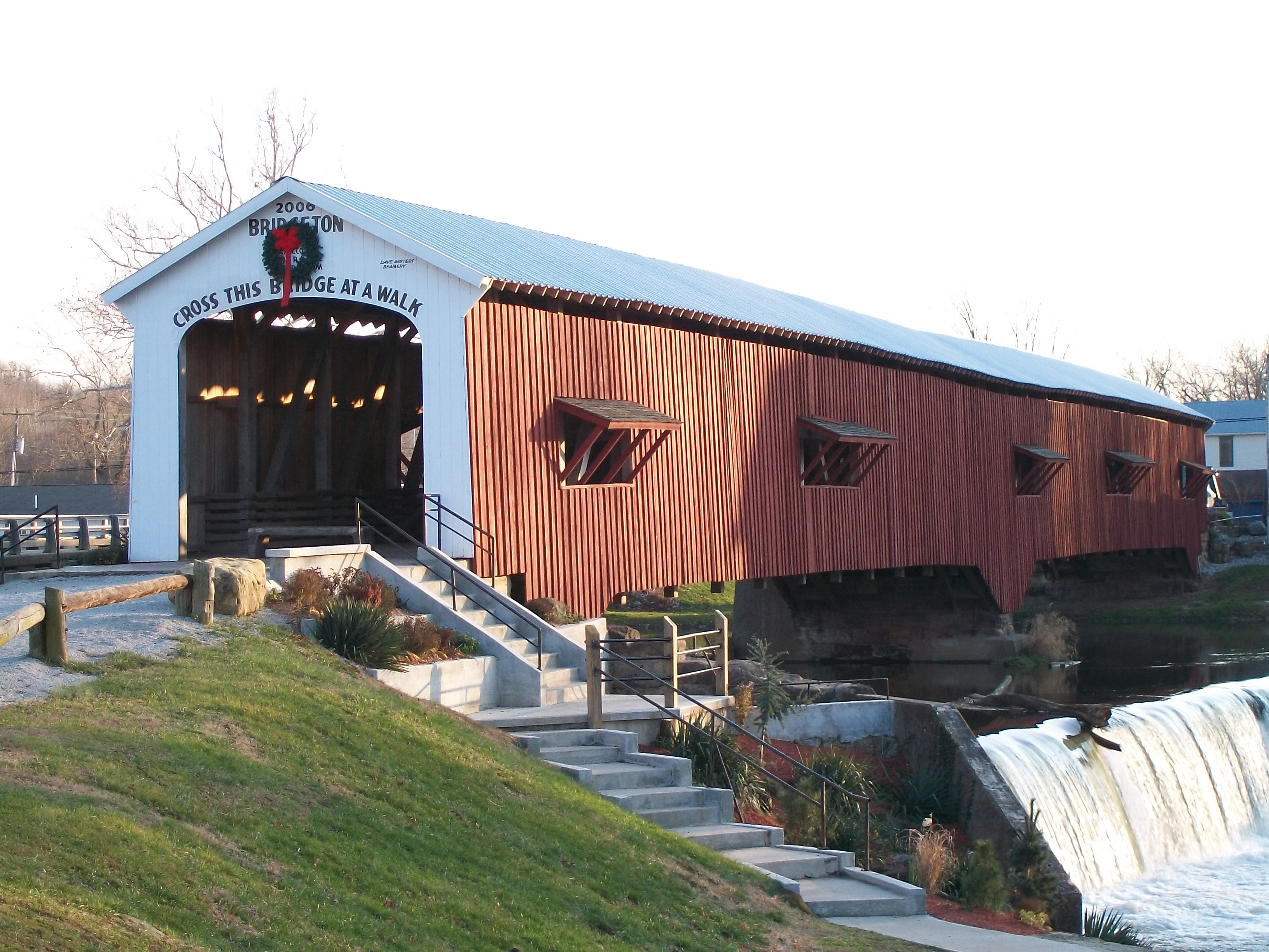 Rebuilt Bridgeton Covered Bridge, Parke County, Indiana